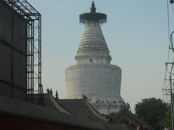 Taken in 2010, in Beijing - view of the White Dagoba Temple (Baita Temple)